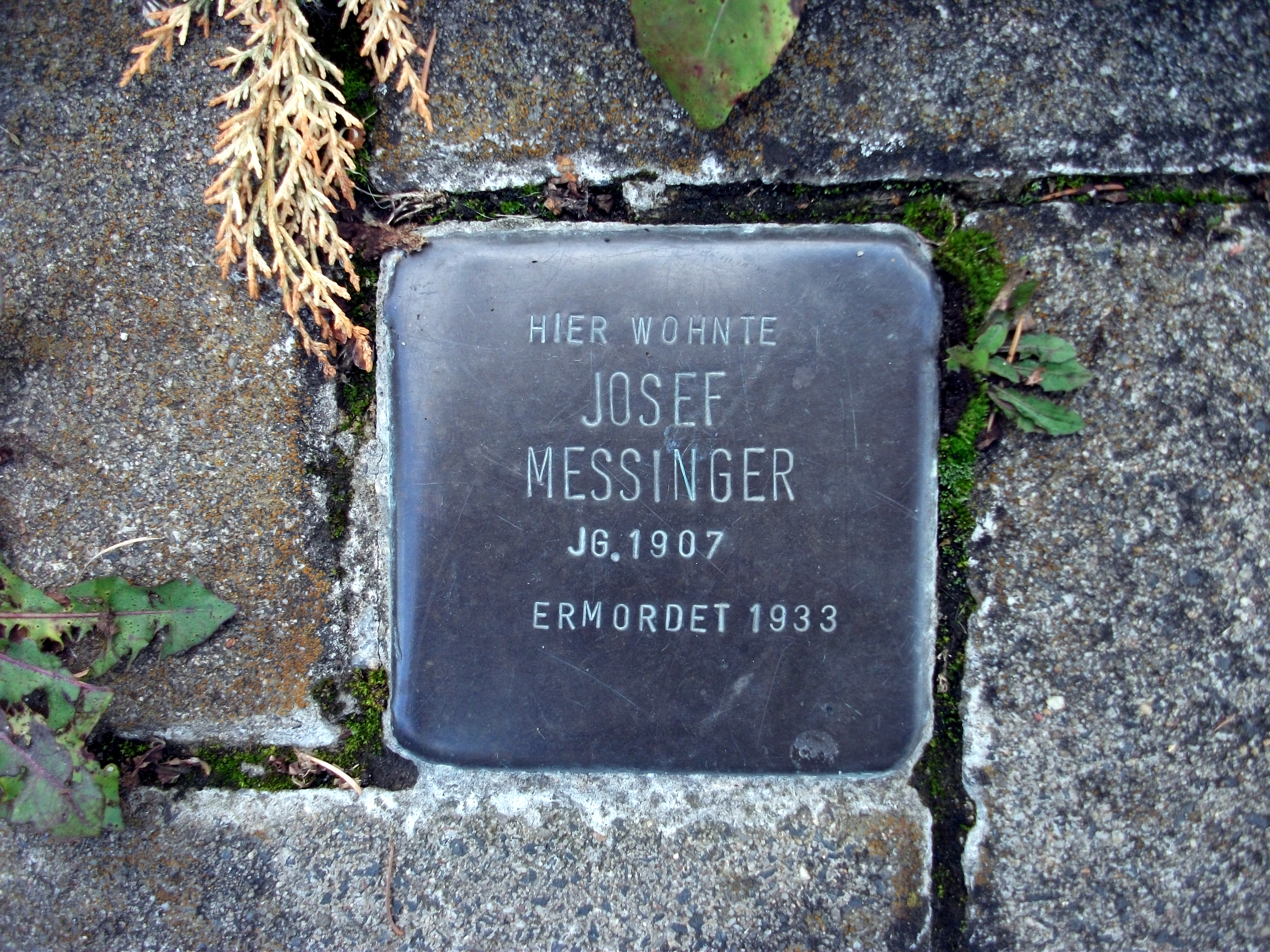 Stolperstein for Josef Messinger, Am Finkenberg 1, Bonn